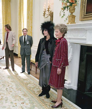 First Lady Nancy Reagan with Cher at the White House.